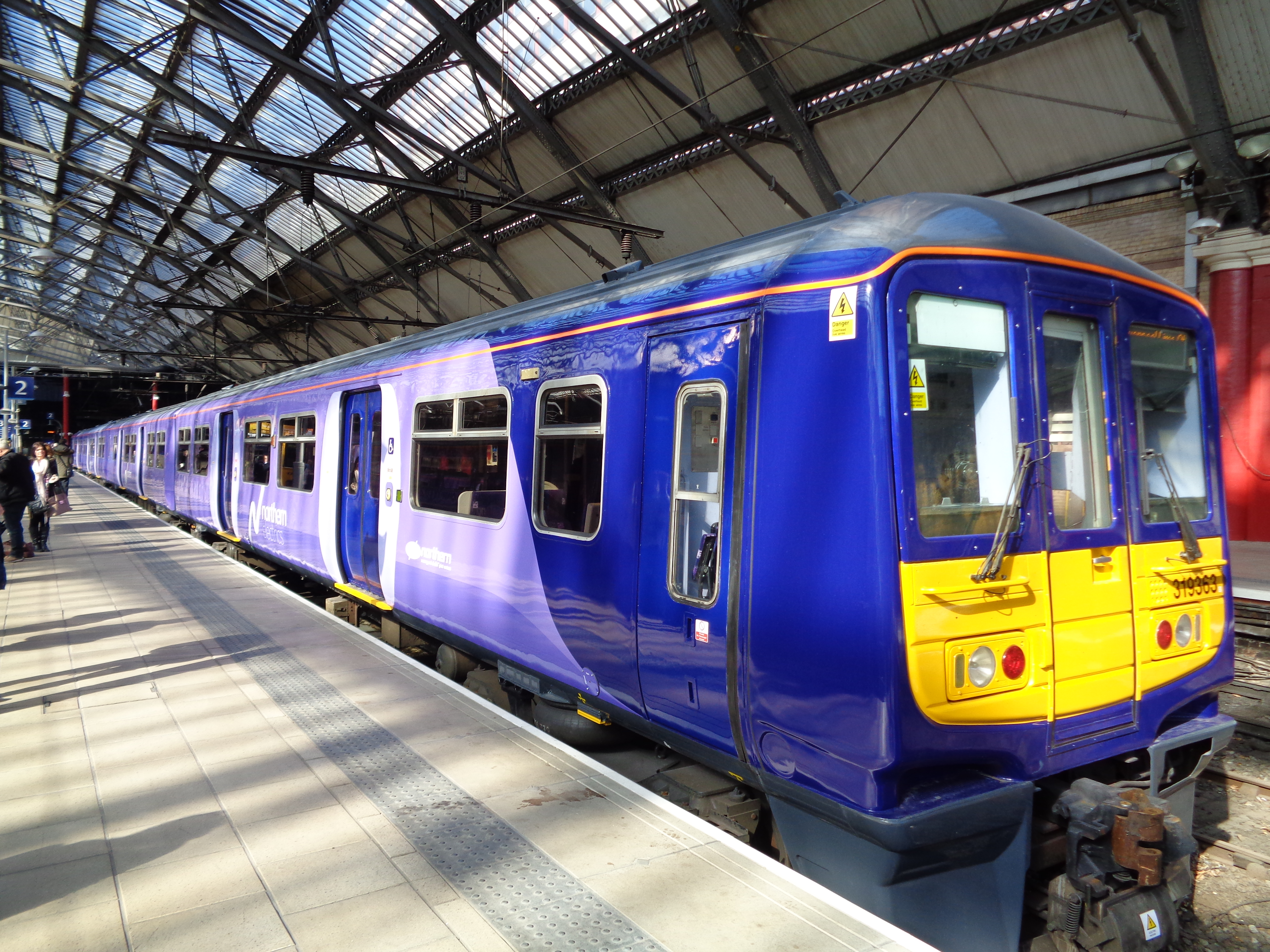 319363 at platform 2, Liverpool Lime Street. Prior to departure on a service to Manchester Airport via Newton-le-Willows. Electric passenger trains started running on this newly-electrified route on 5th March 2015.